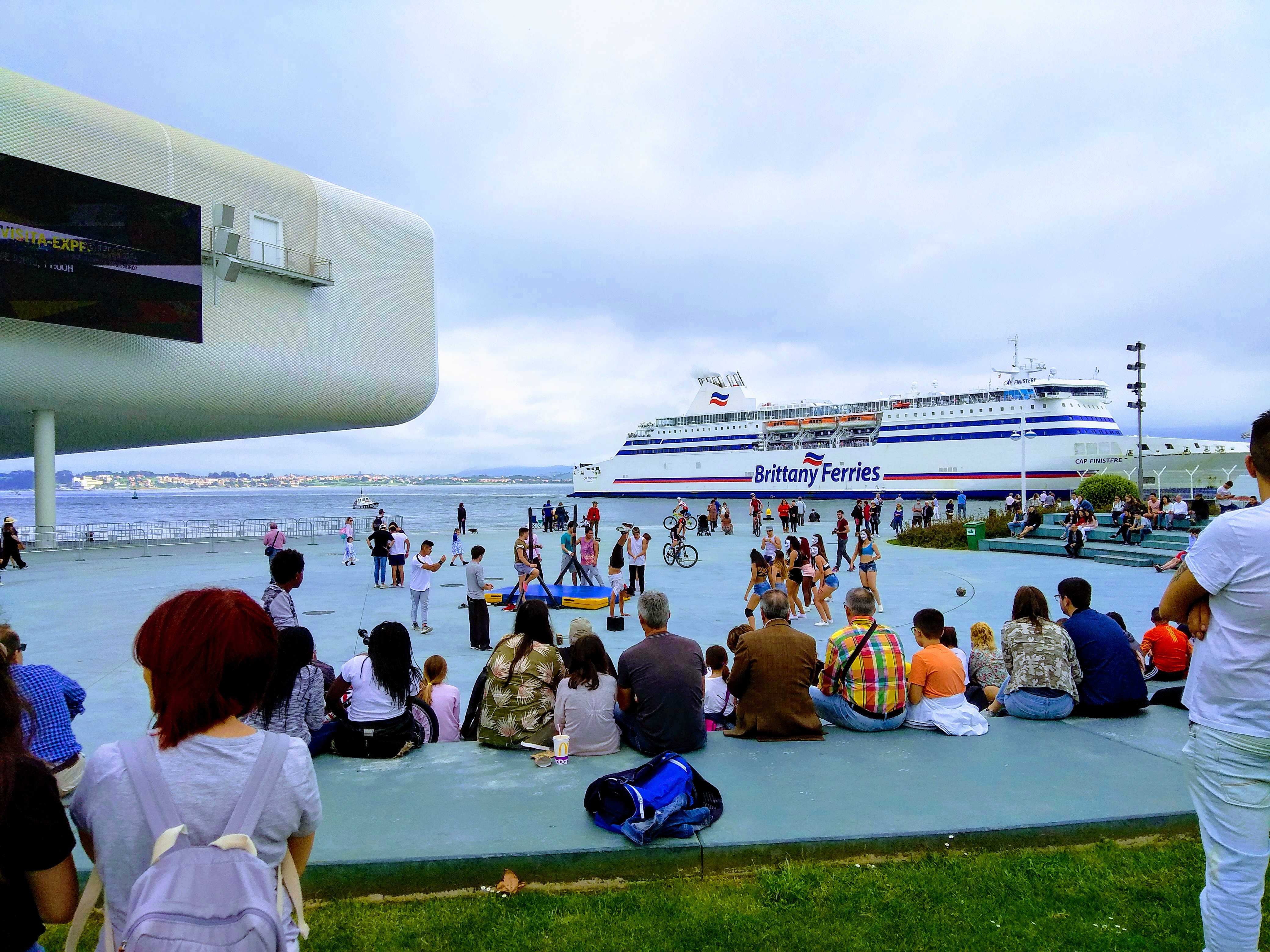 Exterior square of the Botín Center, in the Pereda Gardens of Santander (Cantabria, Spain). In the background a ferry from the Brittany Ferries shipping company entering the port.